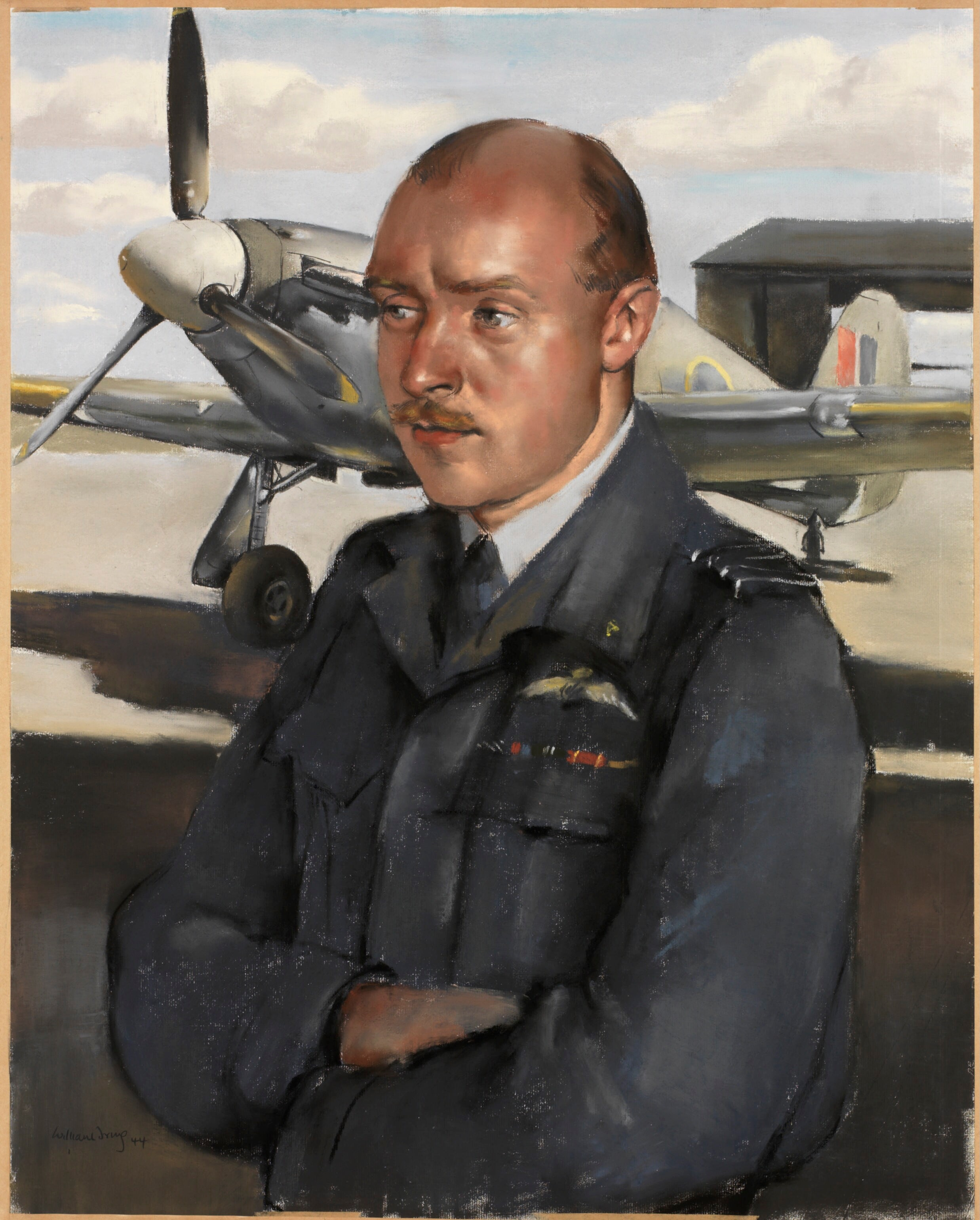 A half-length portrait of Group Captain Anthony Miller , in RAF uniform, standing in front of a Hawker Hurricane fighter with a hangar in the background.